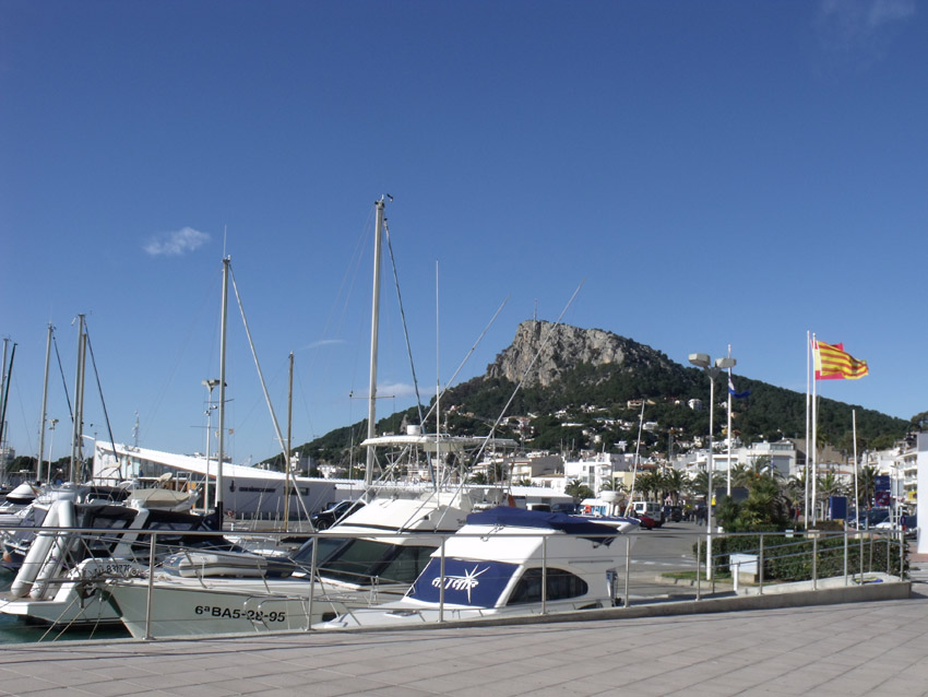 Estartit (Girona)